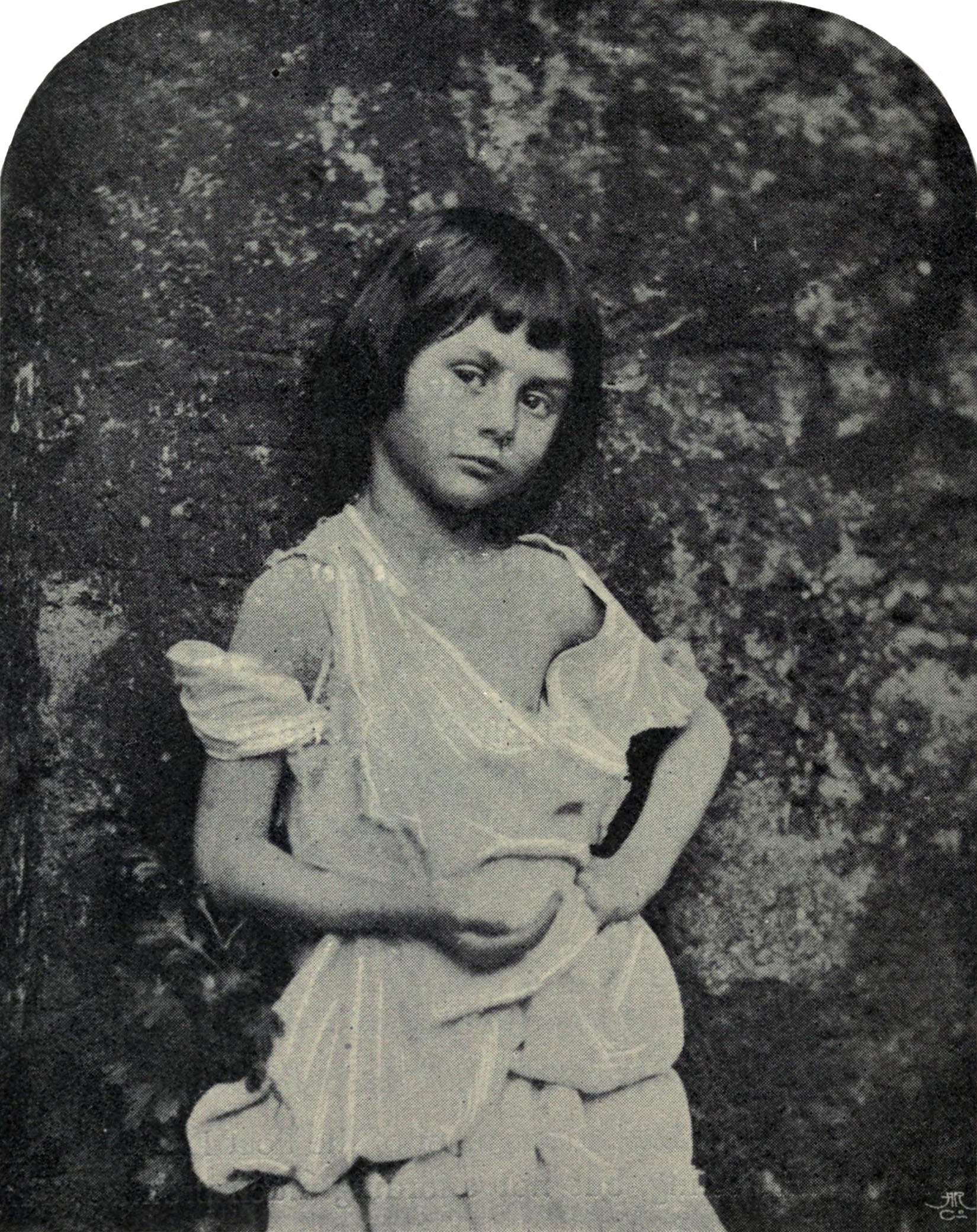 Alice Liddell posing as a beggar